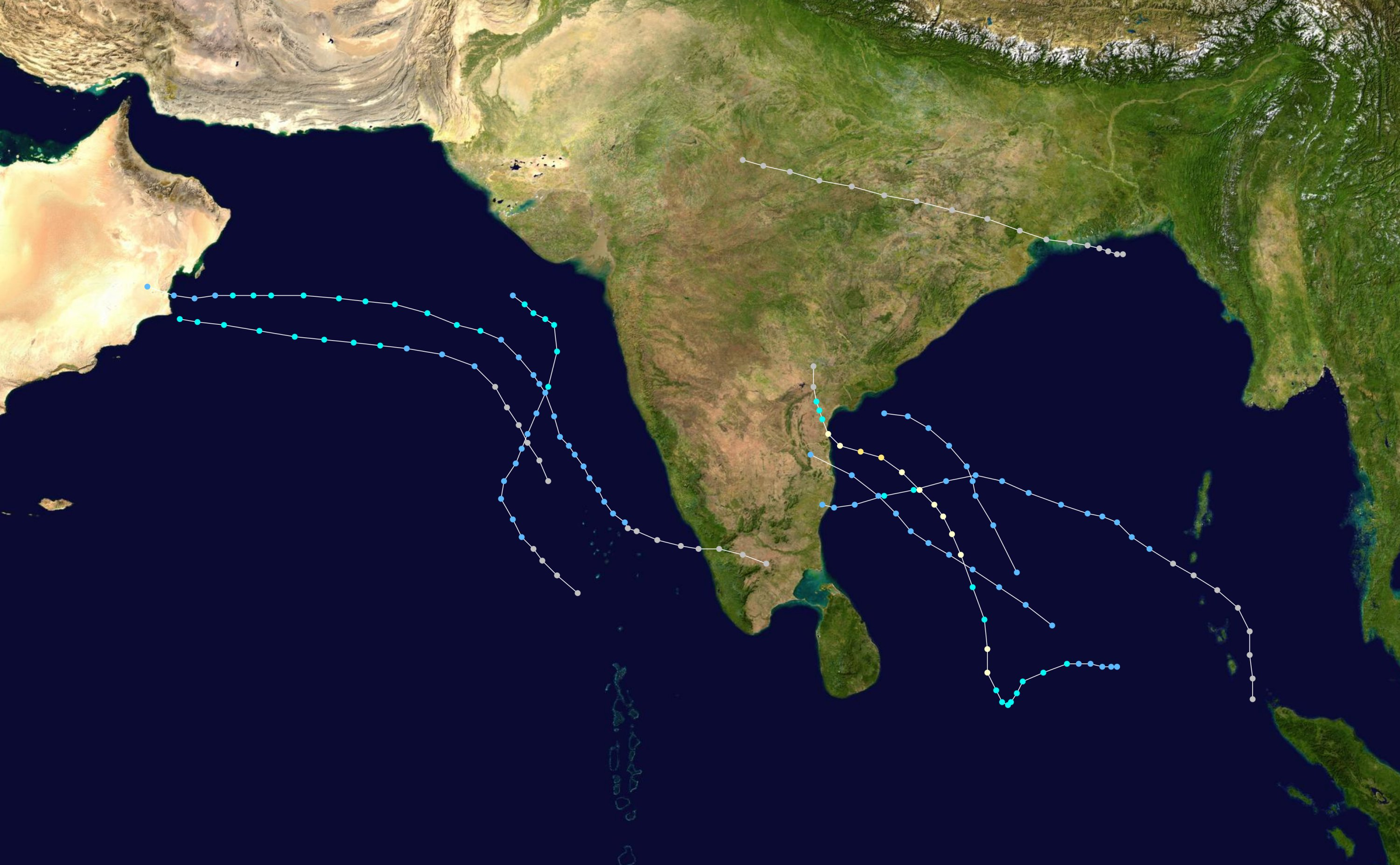 This map shows the tracks of all tropical cyclones in the 1979 North Indian Ocean cyclone season. The points show the location of each storm at 6-hour intervals. The colour represents the storm's maximum sustained wind speeds as classified in the Saffir-Simpson Hurricane Scale (see below), and the shape of the data points represent the type of the storm. Saffir–Simpson scale Tropical depression≤38 mph≤62 km/h Category 3111–129 mph178–208 km/h Tropical storm39–73 mph63–118 km/h Category 4130–156 mph209–251 km/h Category 174–95 mph119–153 km/h Category 5≥157 mph≥252 km/h Category 296–110 mph154–177 km/h Unknown Storm type Tropical cyclone Subtropical cyclone Extratropical cyclone / Remnant low / Tropical disturbance